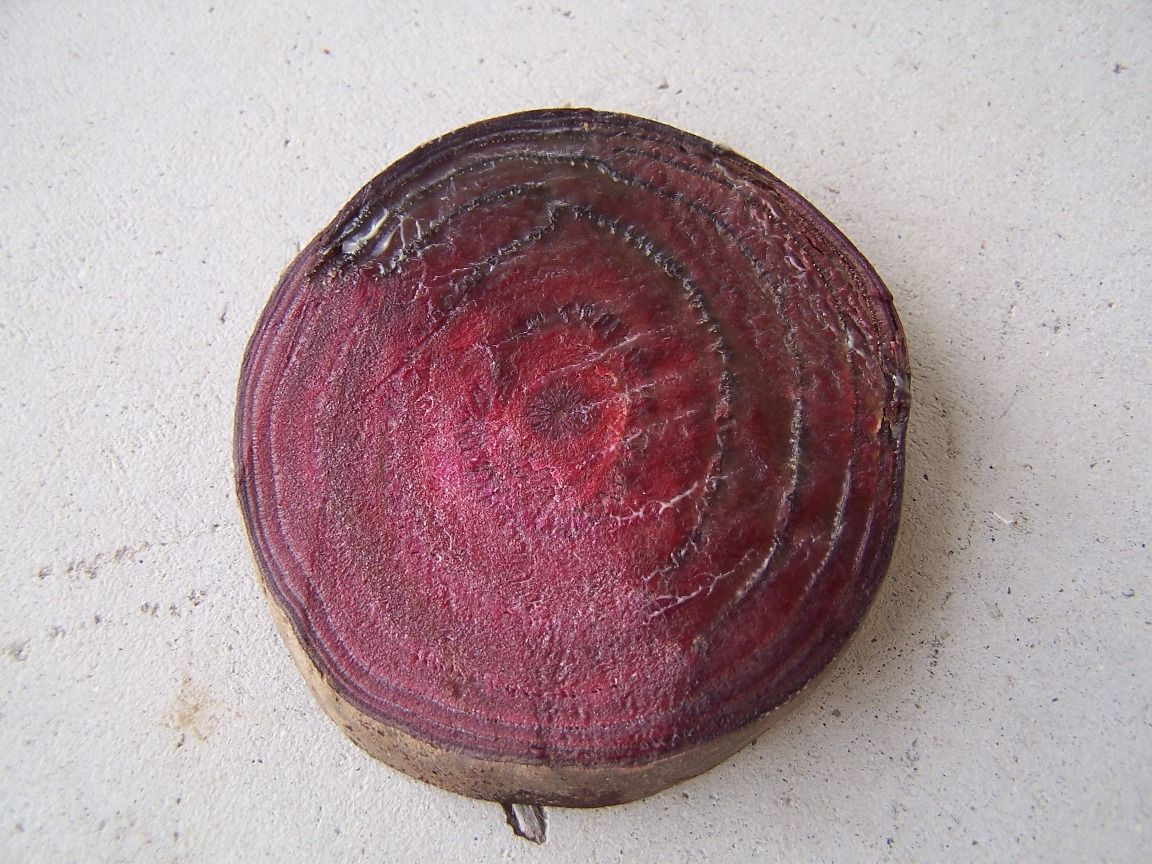 Table beet infected with Pectobacterium carotovorum subsp. betavasculorum, the cause of Beet Vascular Necrosis. A beet slice was incubated in a dish with colonies of Pectobacterium carotovorum subsp. betavasculorum and allowed to colonize the beet